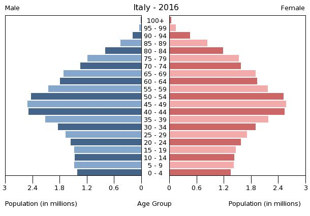 The population pyramid of Italy illustrates the age and sex structure of population and may provide insights about political and social stability, as well as economic development. The population is distributed along the horizontal axis, with males shown on the left and females on the right. The male and female populations are broken down into 5-year age groups represented as horizontal bars along the vertical axis, with the youngest age groups at the bottom and the oldest at the top. The shape of the population pyramid gradually evolves over time based on fertility, mortality, and international migration trends.